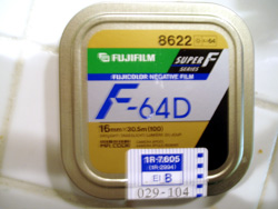 16mm Fuji Film canister. 30.5m (100 ft.)